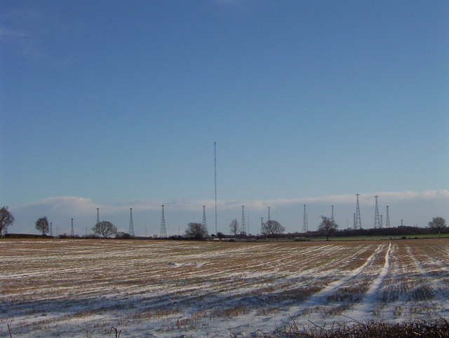 Skelton Transmitting Station. View of Skelton Transmitting Station, Nr Skelton.